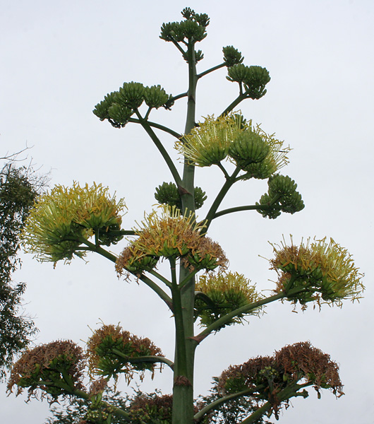 Agave sisalana (Syn. Agave rigida var. sisalana) - century plant, hemp plant, sisal, sisal agave, sisal hemp •